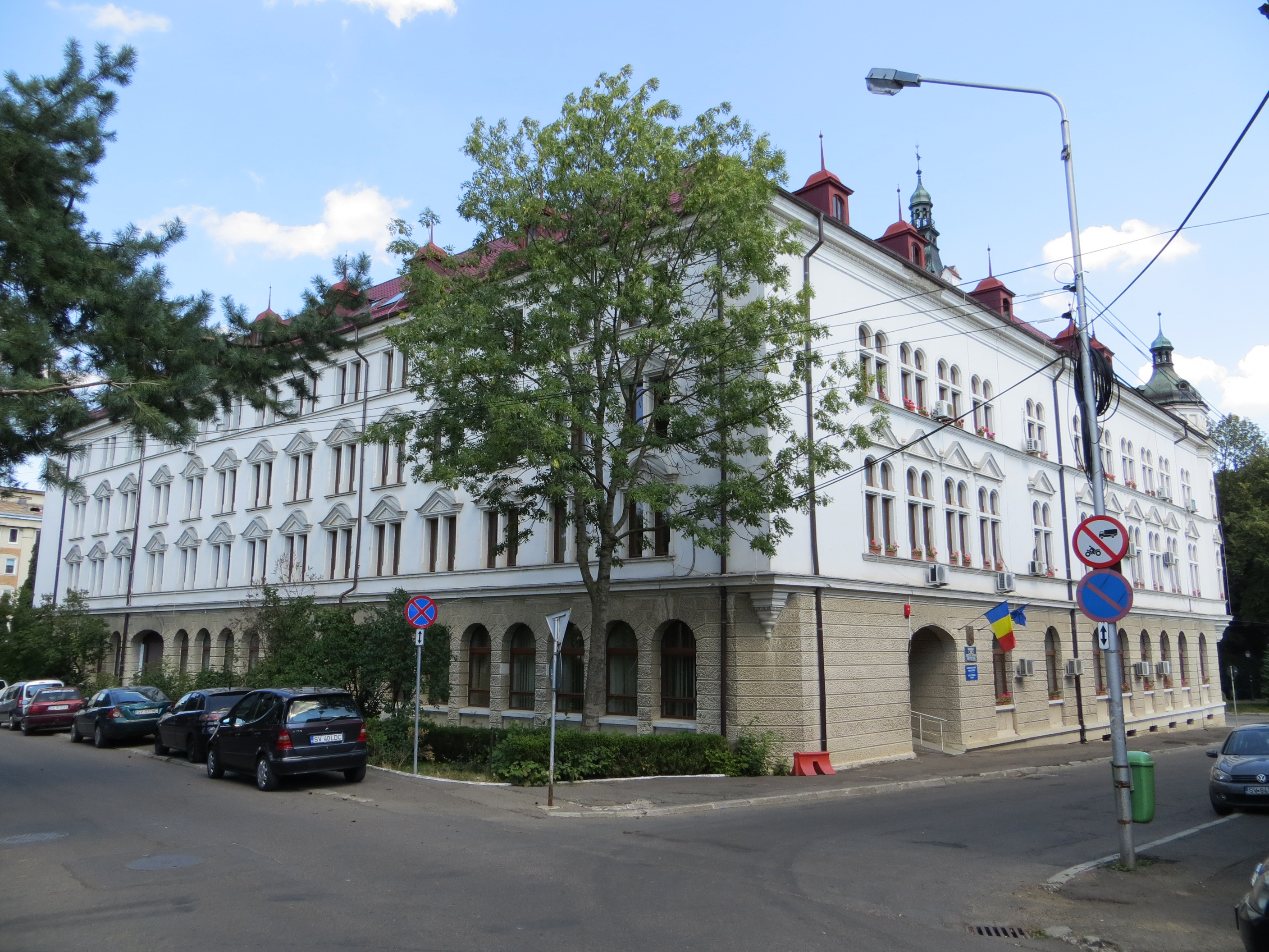 The Administrative Palace in Suceava.